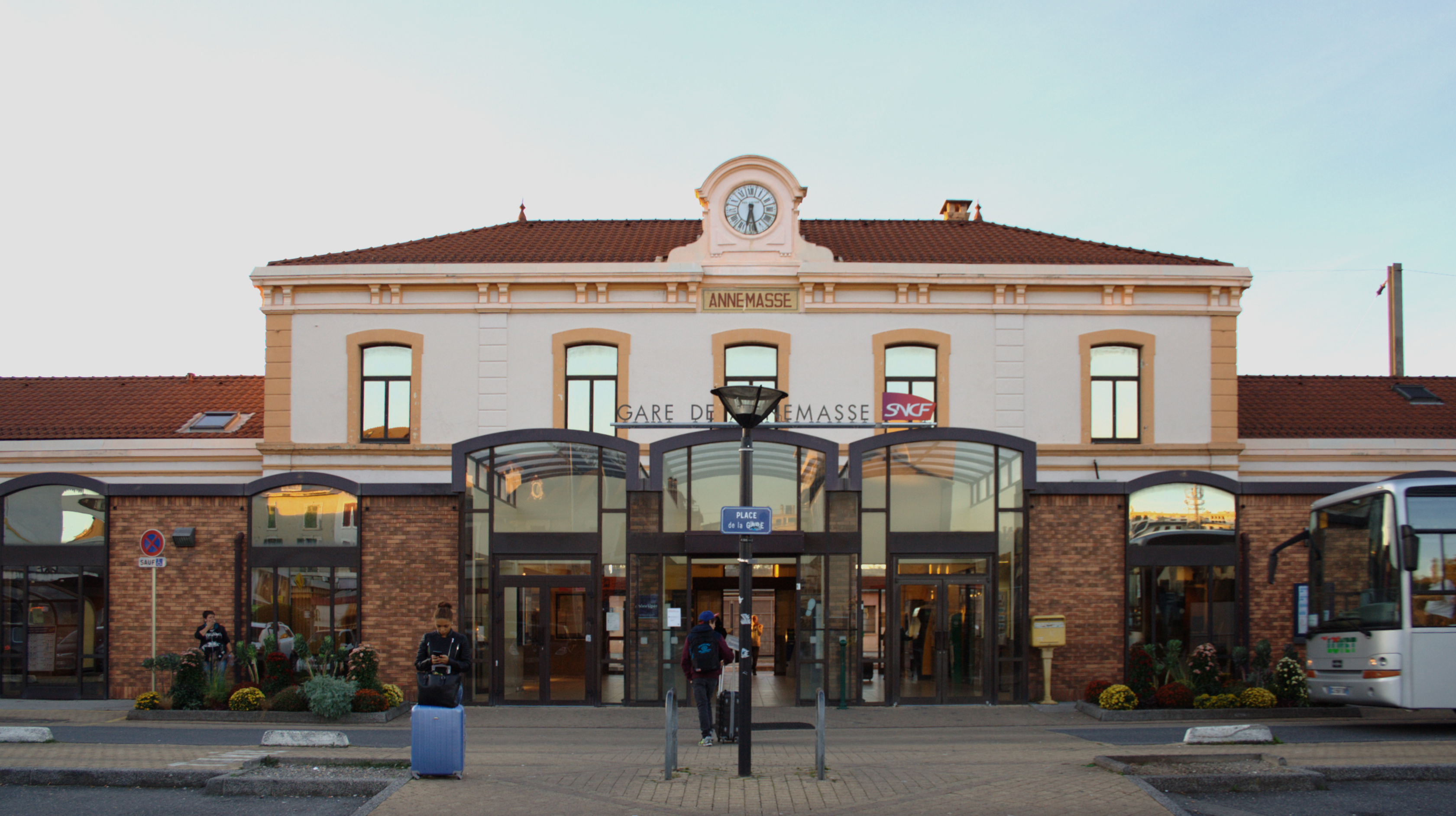 Railway station, Annemasse, France. Main entrance, south-east façade.